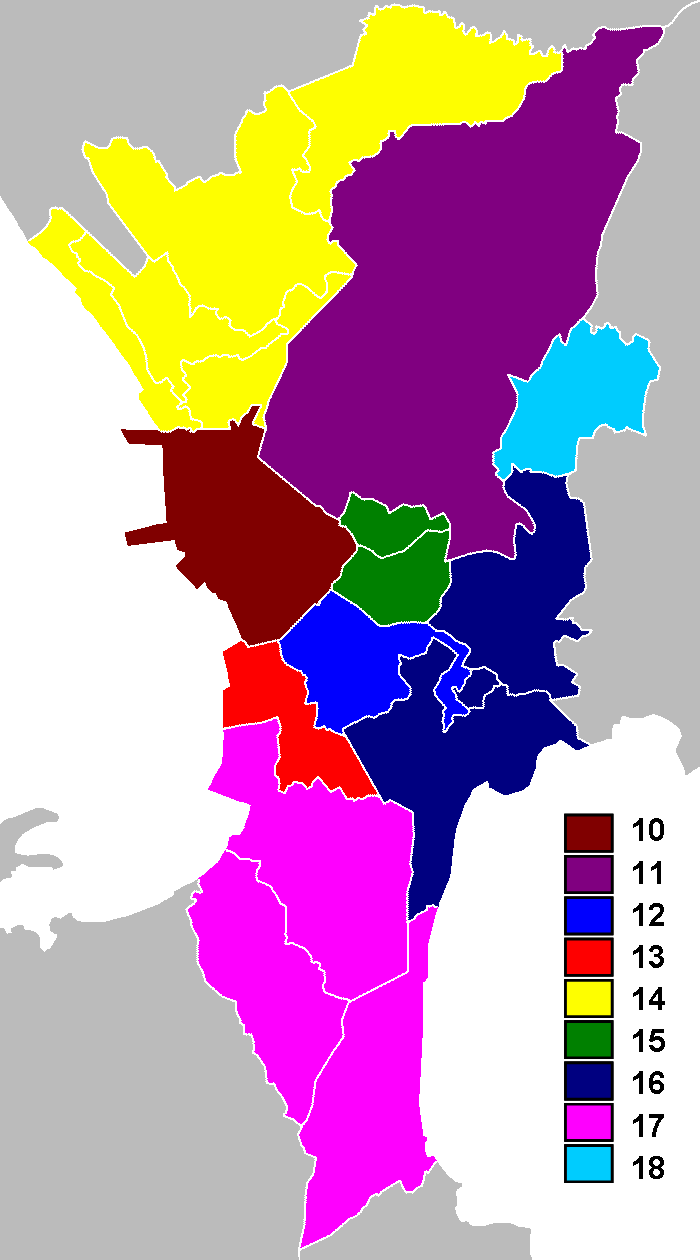 List of ZIP Codes in Metro Manila except big users.